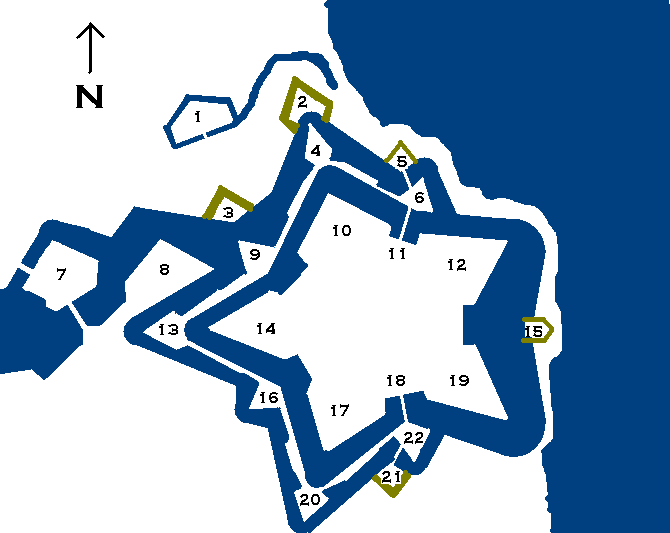 Map of Copenhagen's citadel around 1750.1) Spitsbergens Lynette, 2) Færø Reduit, 3) Hetlands Reduit,4) Lollands Kontregarde, 5) Norges Reduit, 6) Norges Ravelin,7) Østerports Ravelin, 8) Grønlands Bastion, 9) Bornholms Ravelin,10) Prinsens Bastion, 11) Norgesporten, 12) Prinsessens Bastion,13) Møens Kontregarde, 14) Kongens Bastion, 15) Pinneberg Reduit,16) Fyns Ravelin, 17) Dronningens Bastion, 18) Kongeporten (Sjællandsporten),19) Grevens Bastion, 20) Falsters Kontregarde, 21) Sjællands Reduit,22) Sjællands Ravelin.